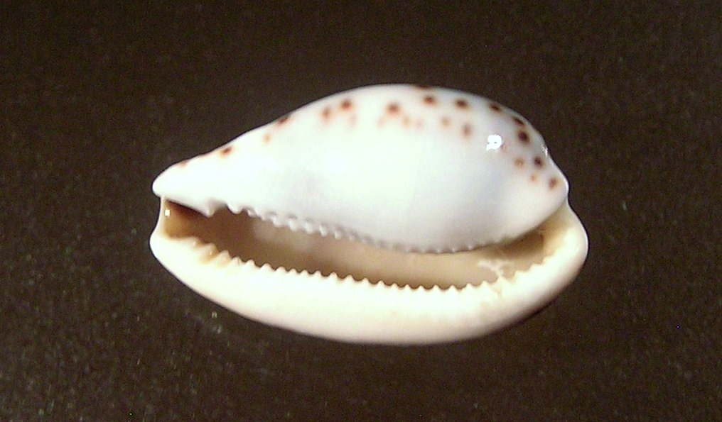 Notocypraea piperita Gray, 1825, a mollusc from the family Cypraeidae